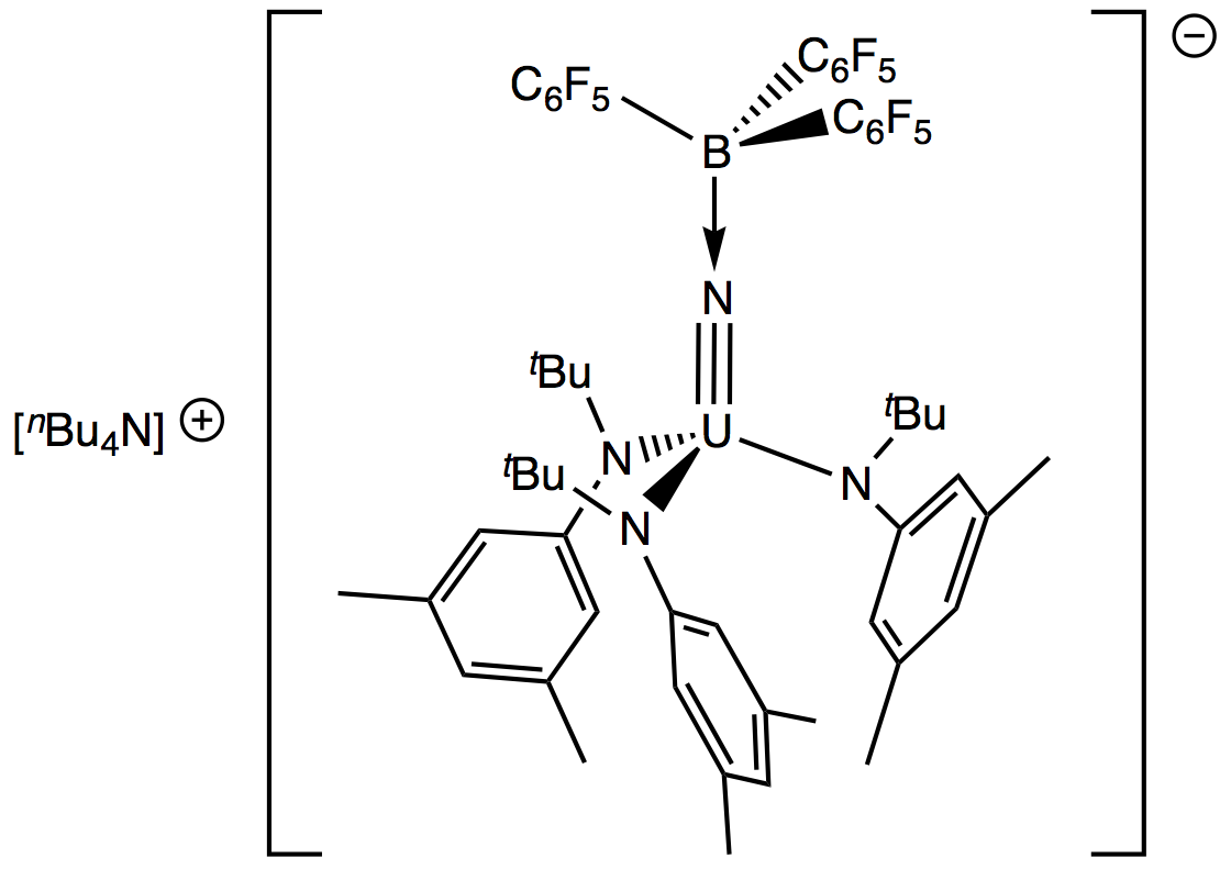 Uranium nitrido complex [N(n-Bu)4][(C6F5)3B−N≡U(Nt-Bu(Me2C6H3))3] reported in: Fox, A.; Cummins, C. Uranium−Nitrogen Multiple Bonding: The Case of a Four-Coordinate Uranium(VI) Nitridoborate Complex. J. Am. Chem. Soc., 2009, 131 (16), 5716–5717.